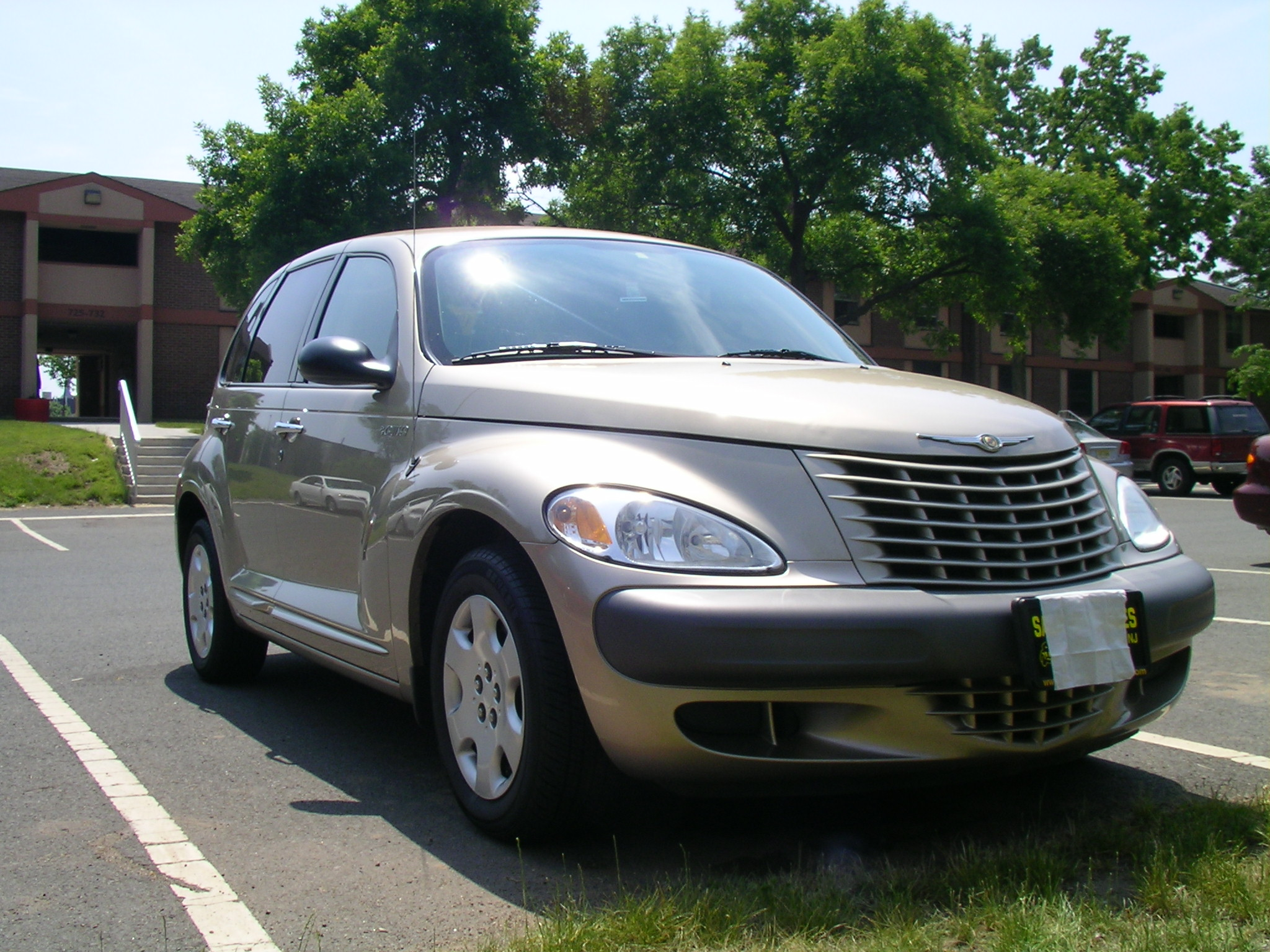 2003 Chrysler PT Cruiser - USA Taken by t-nissie in May 2006 and released to the public domain.